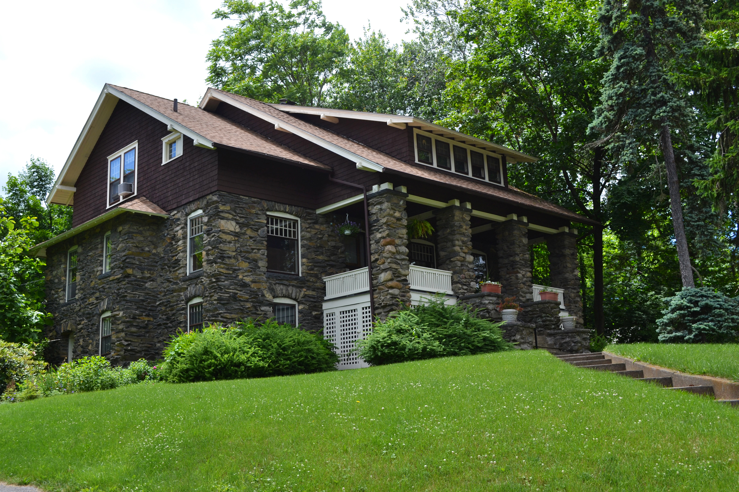 Sague House 167 Hooker Ave, Poughkeepsie, NY. East and Northern facade